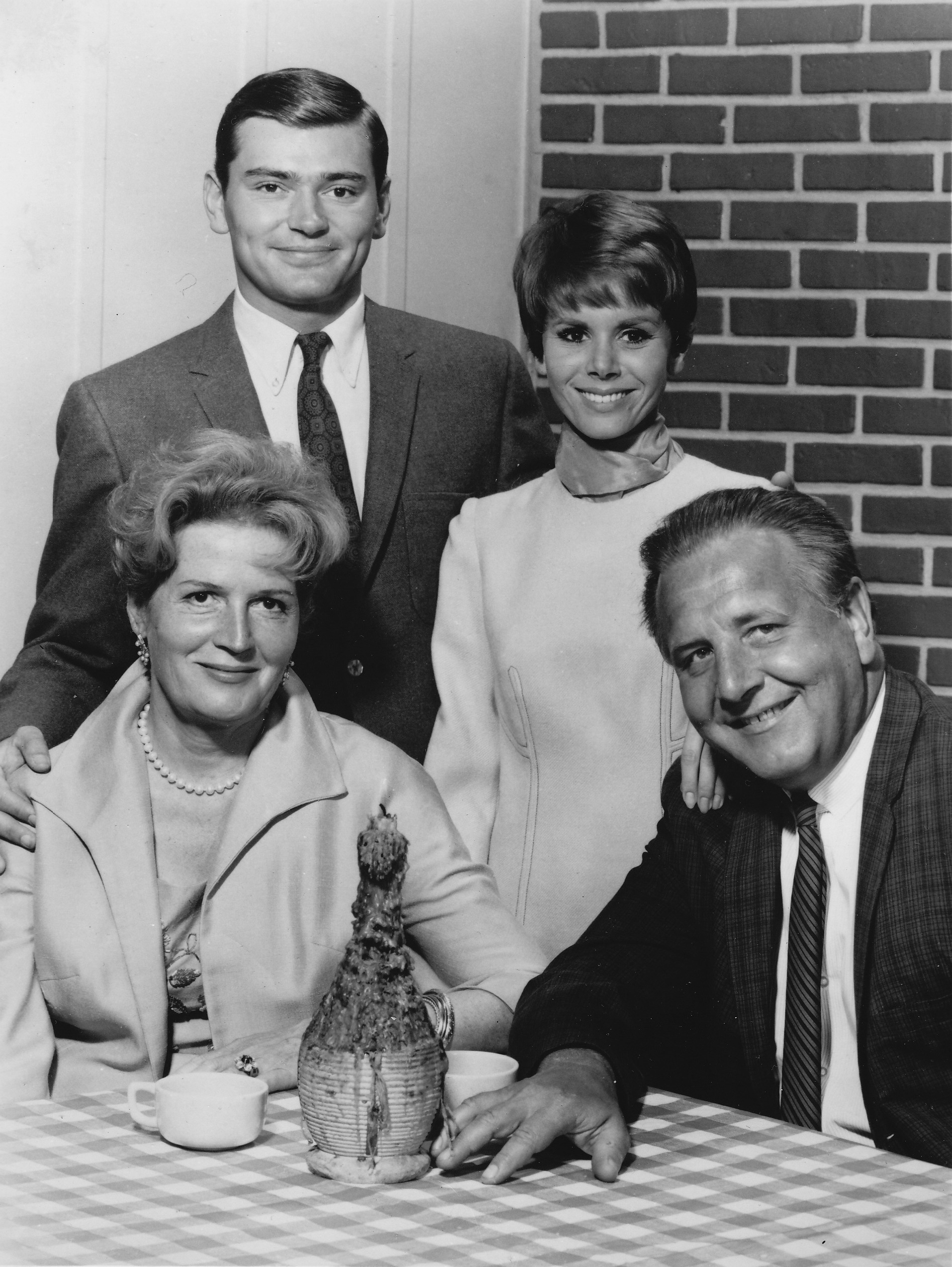 Publicity photo of the cast of the ABC television series Love on a Rooftop; (Top, L–R) Peter Deuel, Judy Carne, (Front, L–R) Edith Atwater, Herbert Voland.